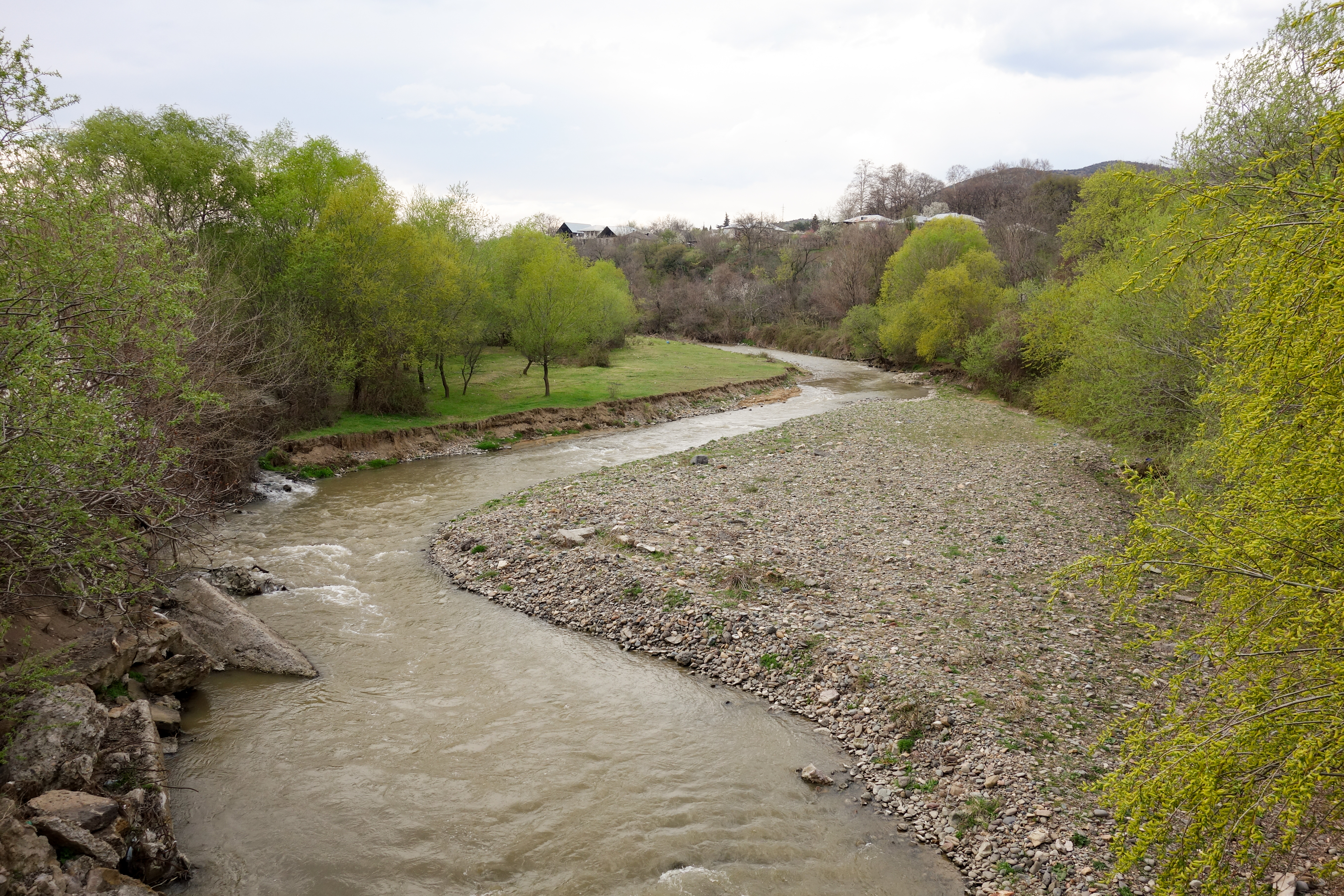 Mashavera River in Bolnisi, Kvemo Kartli, Georgia